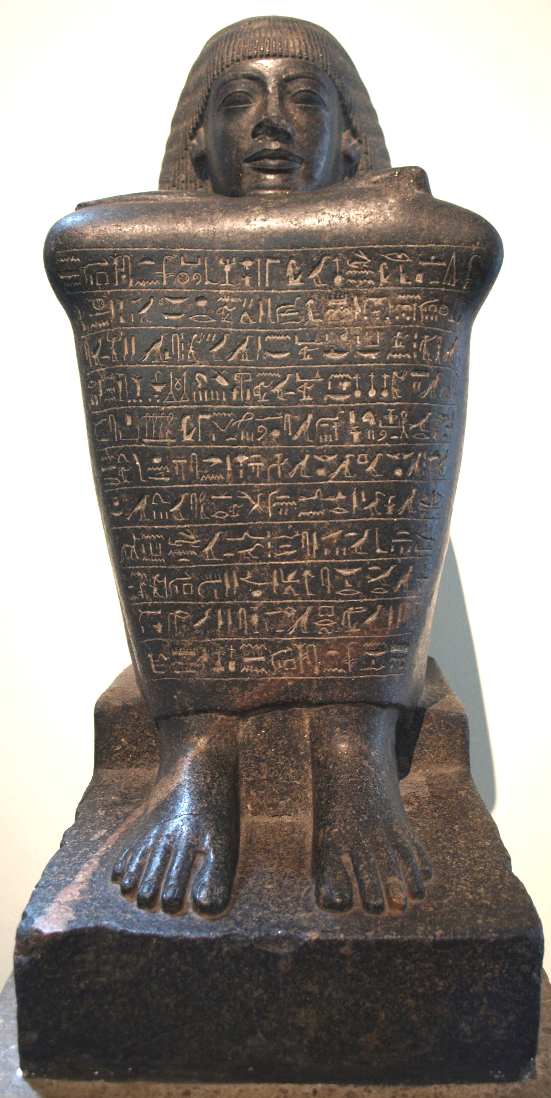 Granodiorite statue of 'high steward of Memphis' Amenhotep, circa 1400 BC. Originally from Abydos, this Amenhotep (not to be confused with one of several pharoahs of the same name) had the title 'high steward of Memphis'.